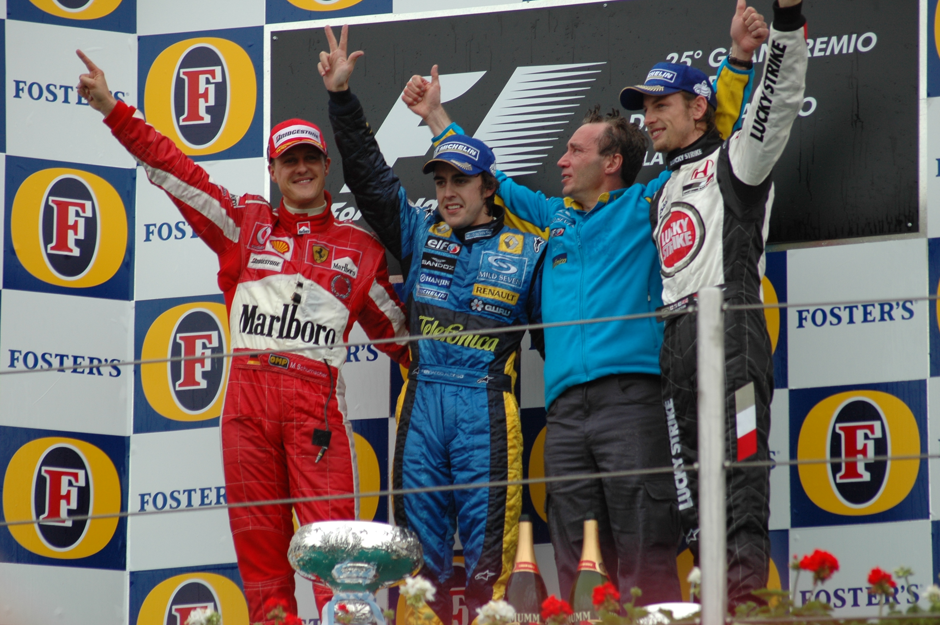 Michael Schumacher, Fernando Alonso and Jenson Button celebrate on the podium at the 2005 San Marino Grand Prix